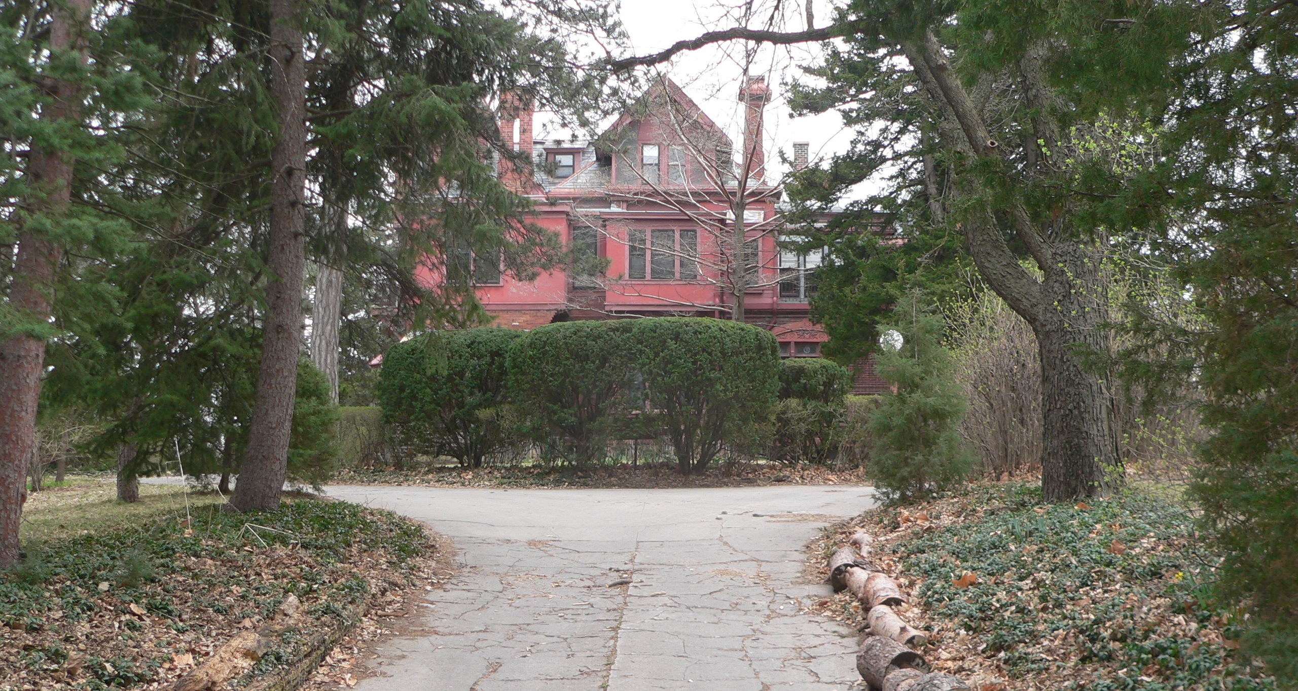 Samuel D. Mercer house, located at 3920 Cuming Street in Omaha, Nebraska; seen from the southeast.